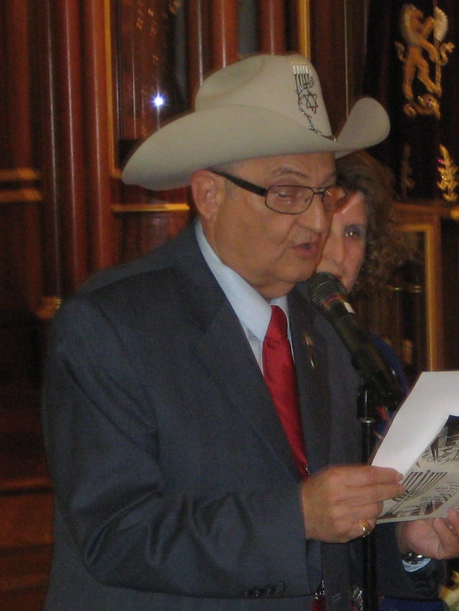 Jay M. Ipson at Hanukkah celebration in the Choral Synagoge of the Virginia Holocaust Museum